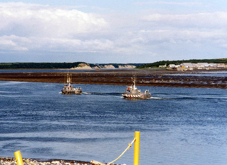 Photo of salmon boats on the Naknek River in Alaska